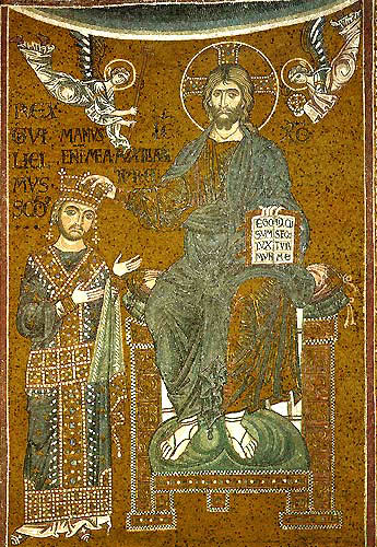 Christ crowns William II of Sicily